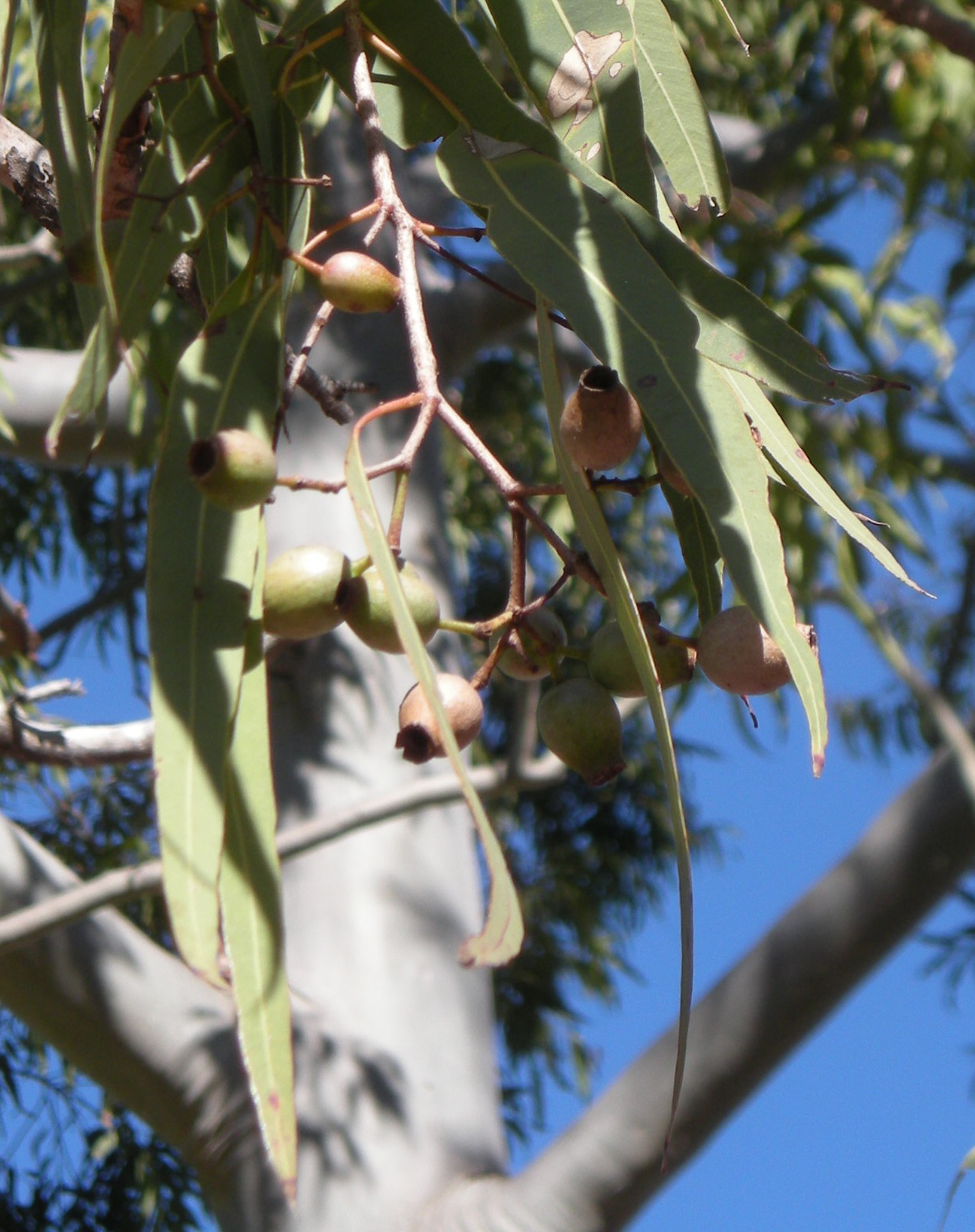 Corymbia erythrophloia capsules, Rockhampton, Queensland.